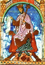 Ramiro II of León